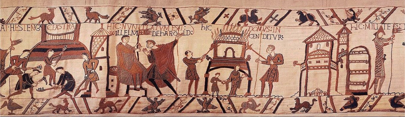 Invasion fleet of Duke William of Normandy on Bayeux Tapestry